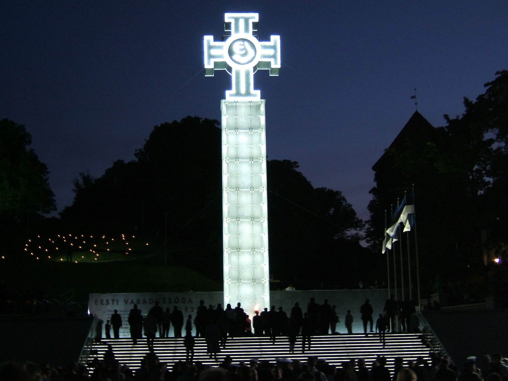 Opening of the War of Independence Victory Column